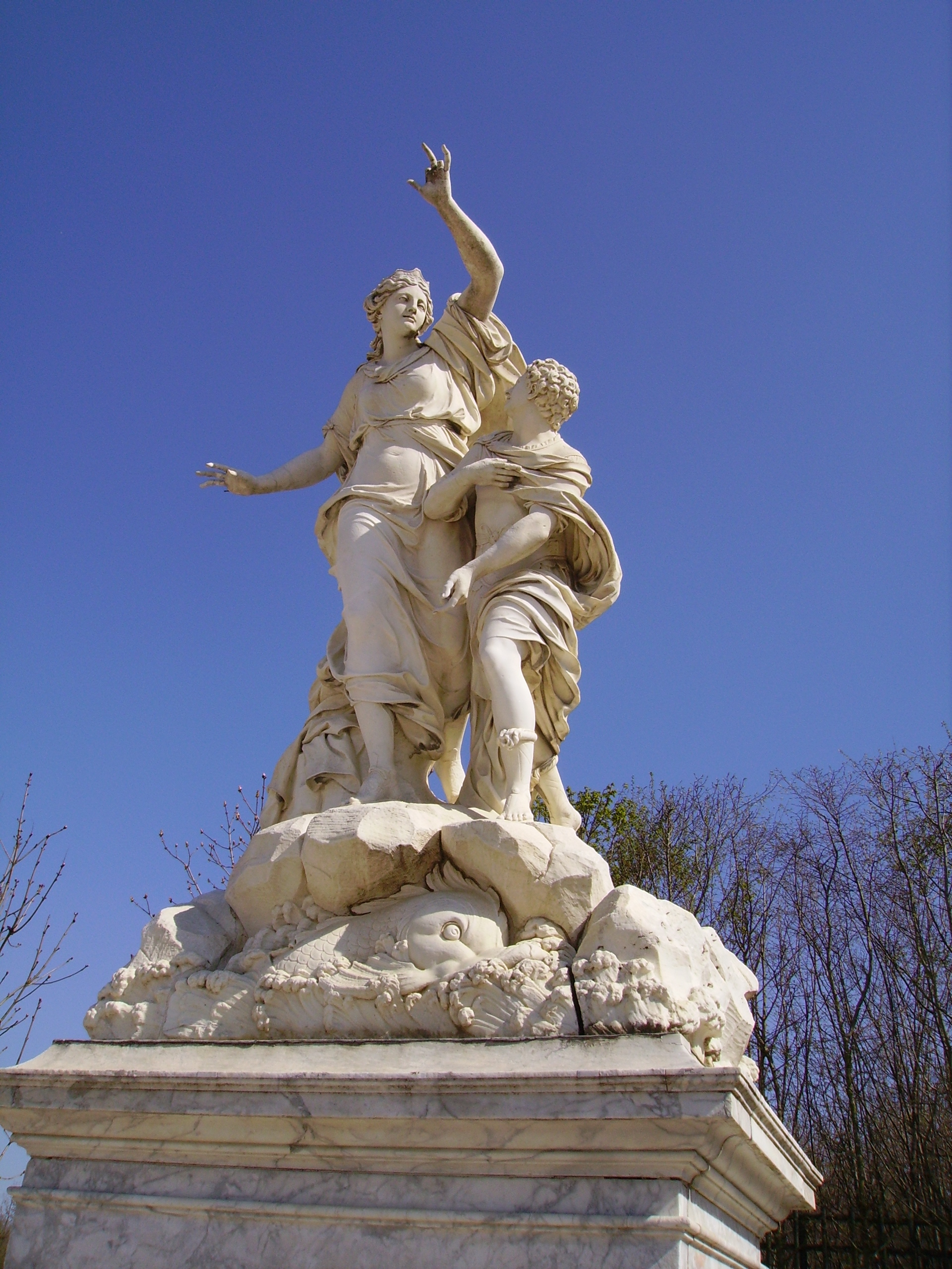 Creator: Pierre Granier (French, 1655-1715) Title: Ino et Mélicerte Location: Park of Versailles . Yair Haklai, taken April 4th, 2007